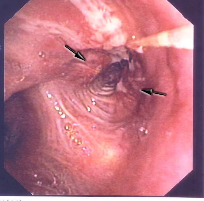 Lung tumor invading the bronchus as seen through bronchoscopy.